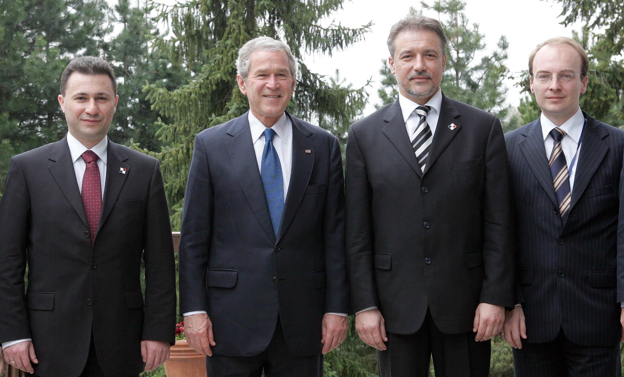 US President George Bush with Macedonian Prime Gruevski, Pres. Crvenkovski and Min of For. Milošovski